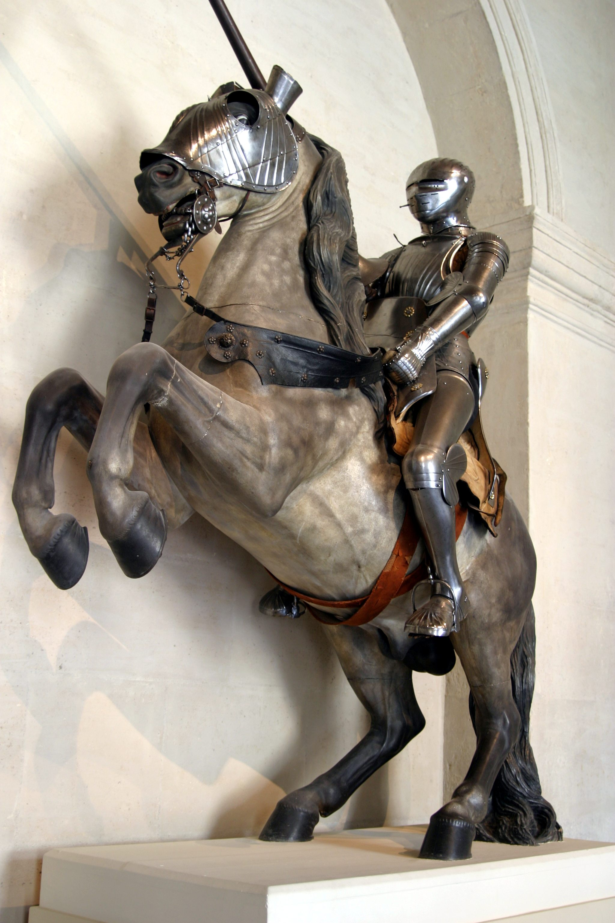 late 15th or early 16th century armour on exhibit in the Musée de l'Armée, Paris.